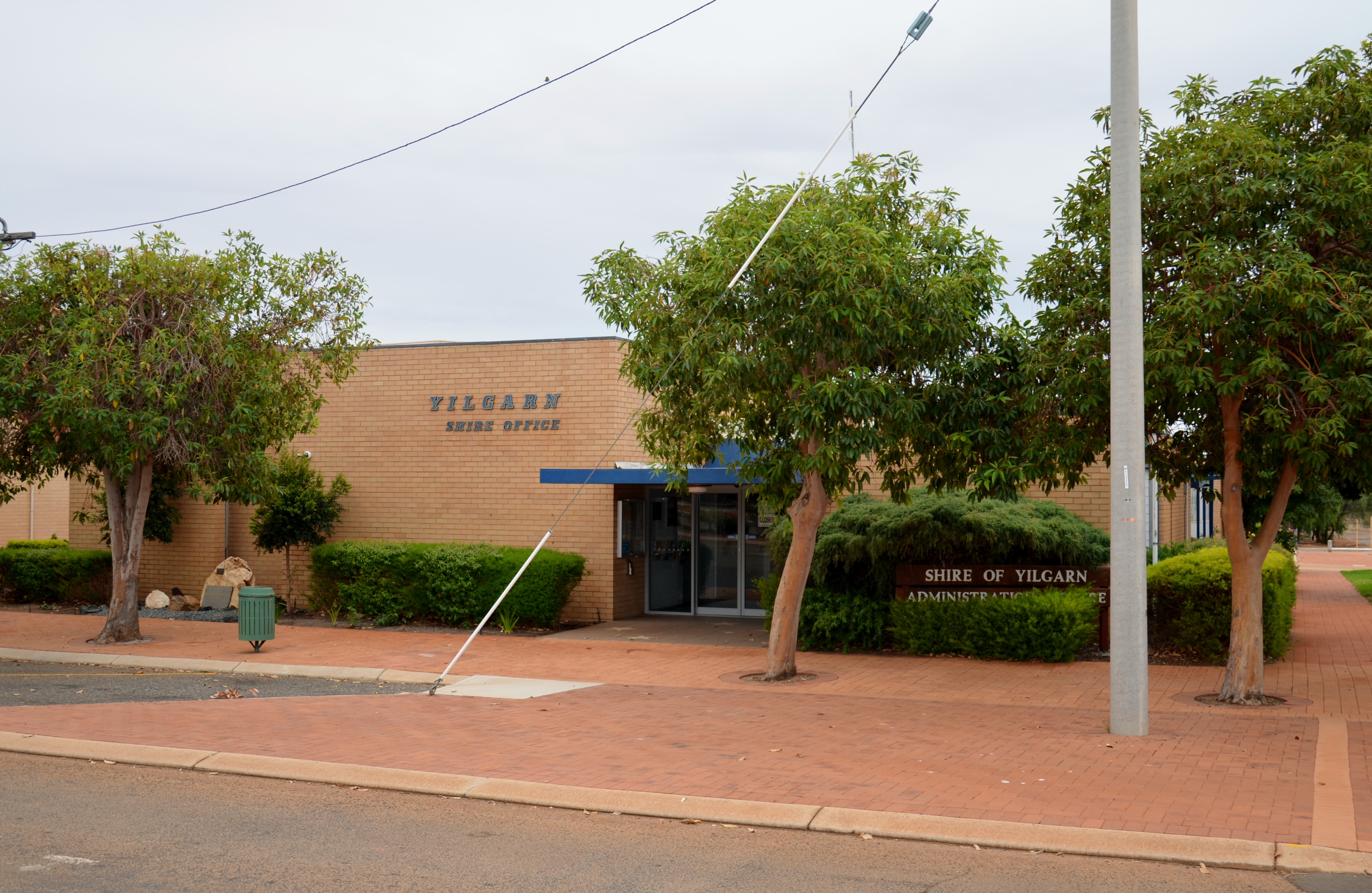 View of the Yilgarn Shire Office, 23 Antares Street, Southern Cross, Western Australia